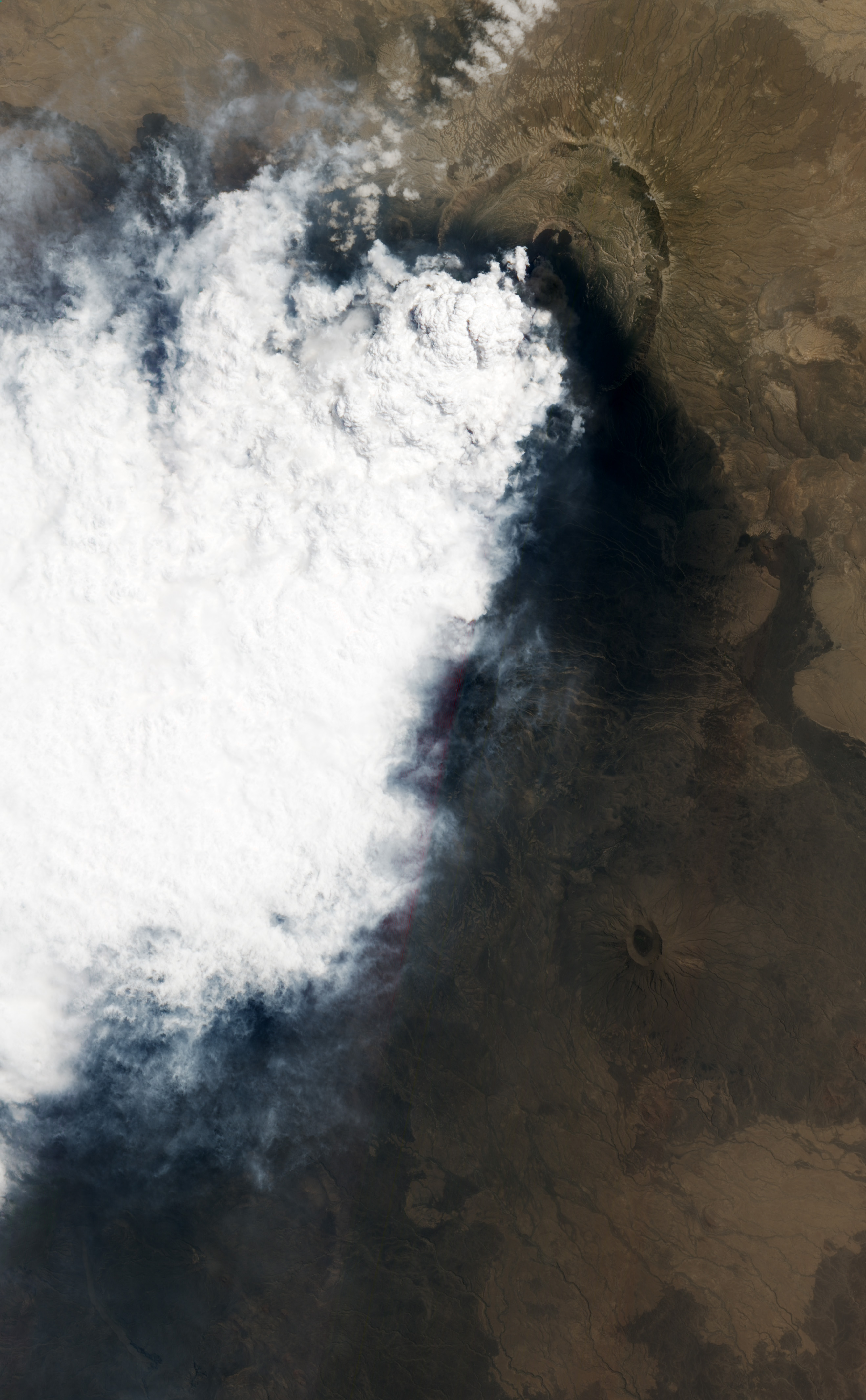 Natural-colour image showing a close-up view of the volcanic plume and eruption site. A dark ash plume rises directly above the vent, and a short, inactive (cool) lava flow partially fills the crater to the north. A gas plume, rich in water and sulfur dioxide (which contributes a blue tint to the edges of the plume) obscures the upper reaches of the active lava flow. Black ash covers the landscape south and west of Nabro.